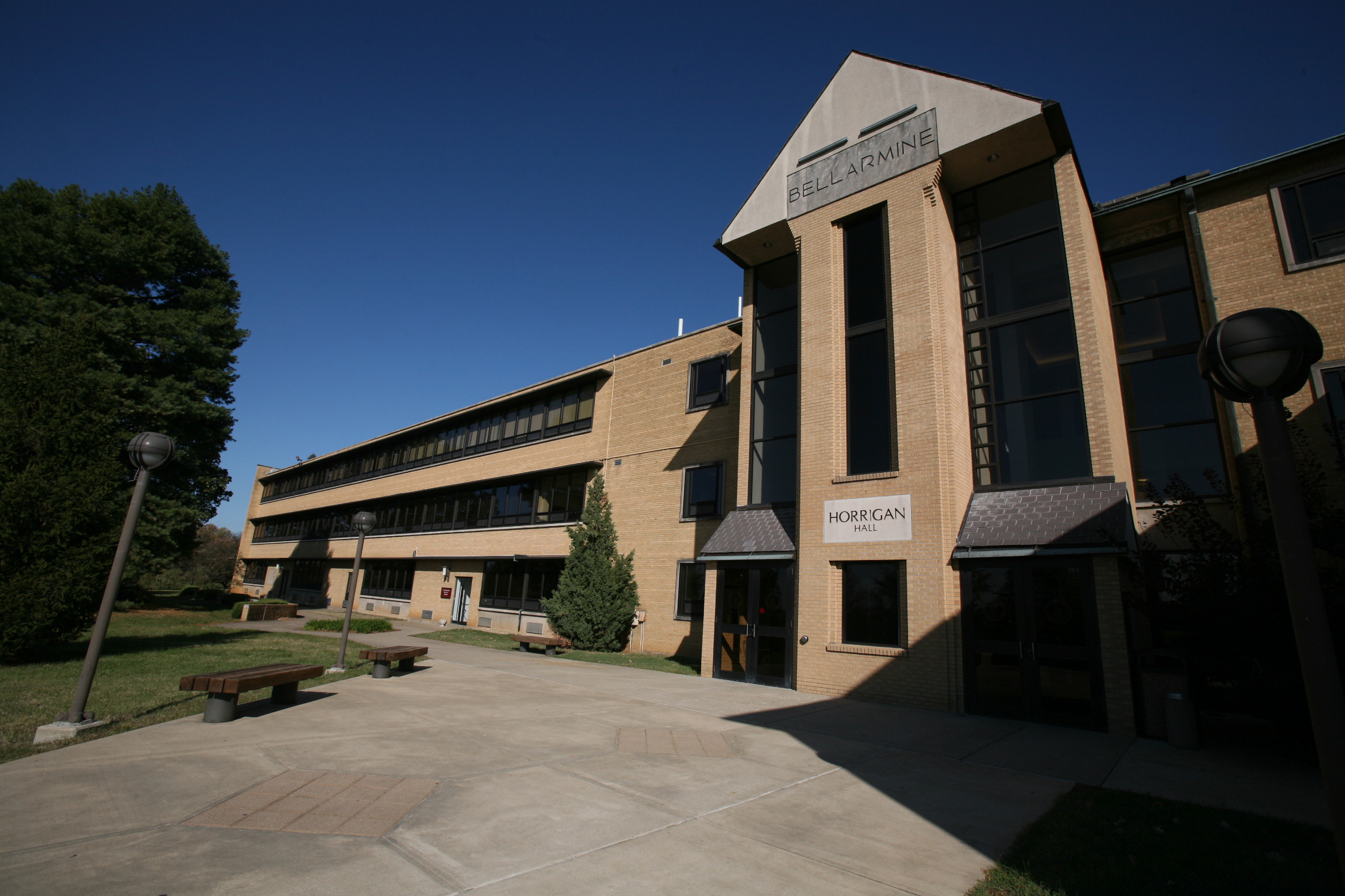 This is a photo taken of the front of Horrigan Hall on Bellarmine University's campus in Louisville, KY.